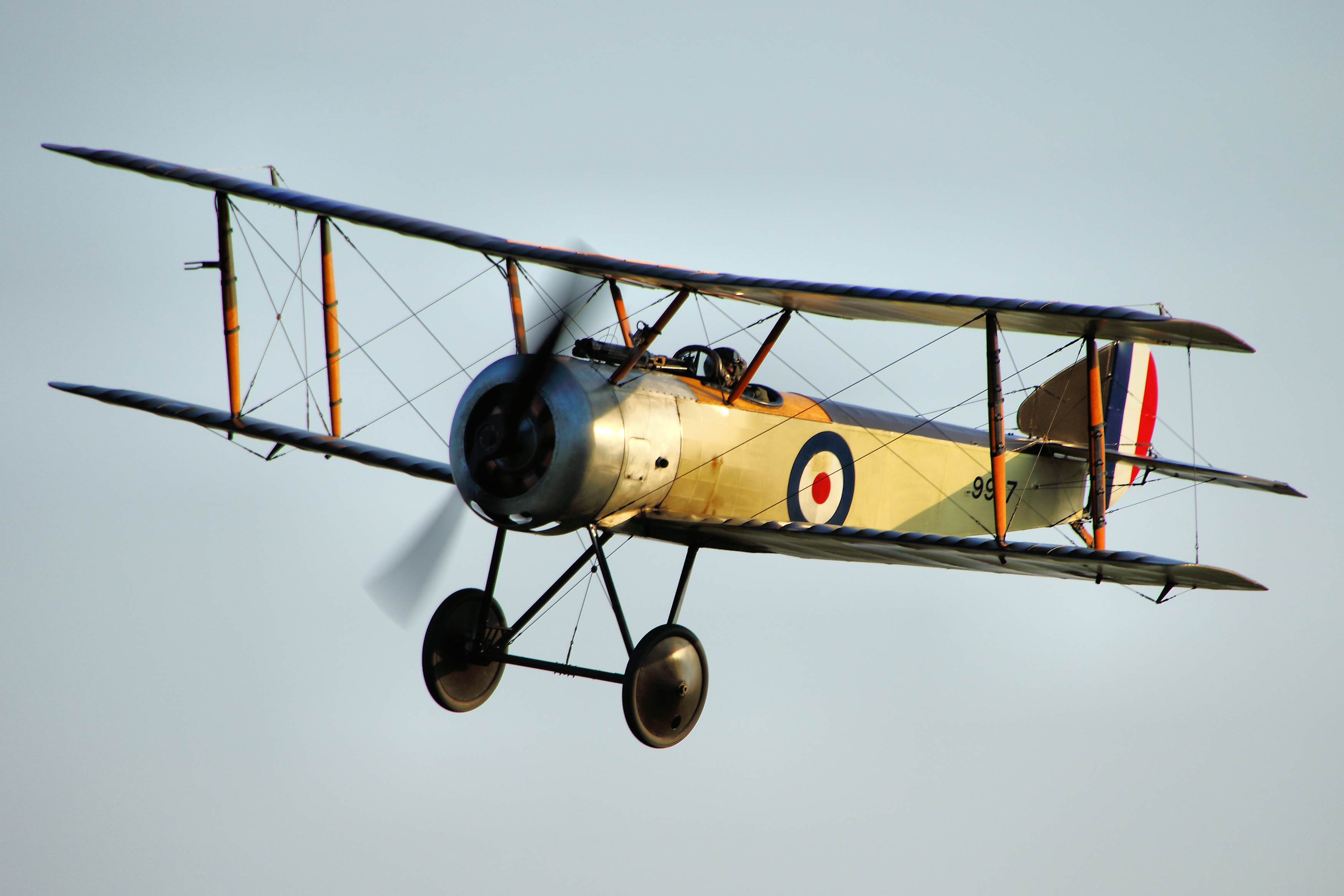 Sopwith Pup - Shuttleworth Uncovered 2015